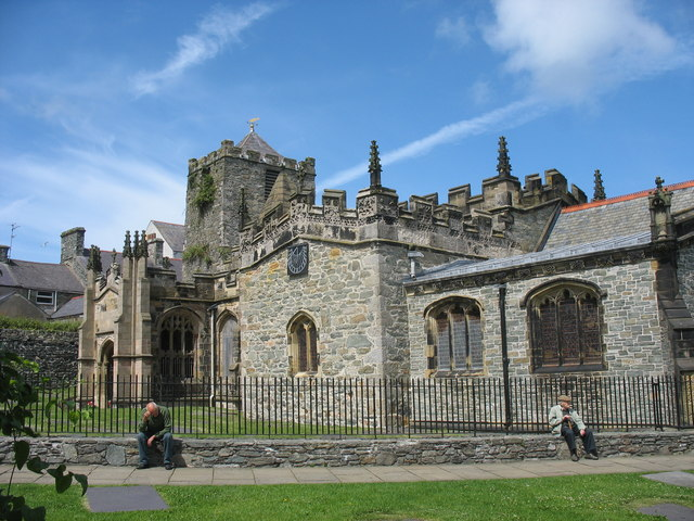 Contemplatives at St Cybi's Church